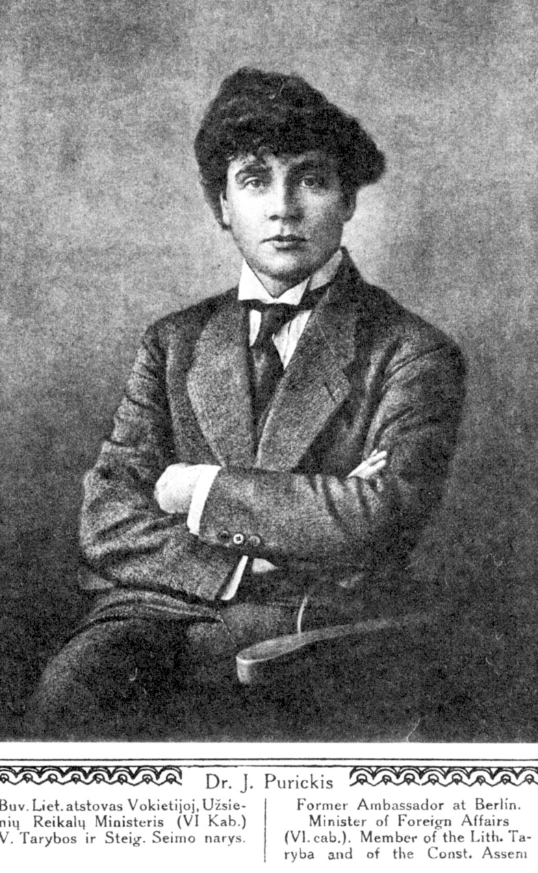 Juozas Purickis, member of Constituent Assembly of Lithuania, diplomat, journalistLietuvių: Juozas Purickis, Lietuvos Steigiamojo Seimo atstovas, diplomatas, žurnalistas